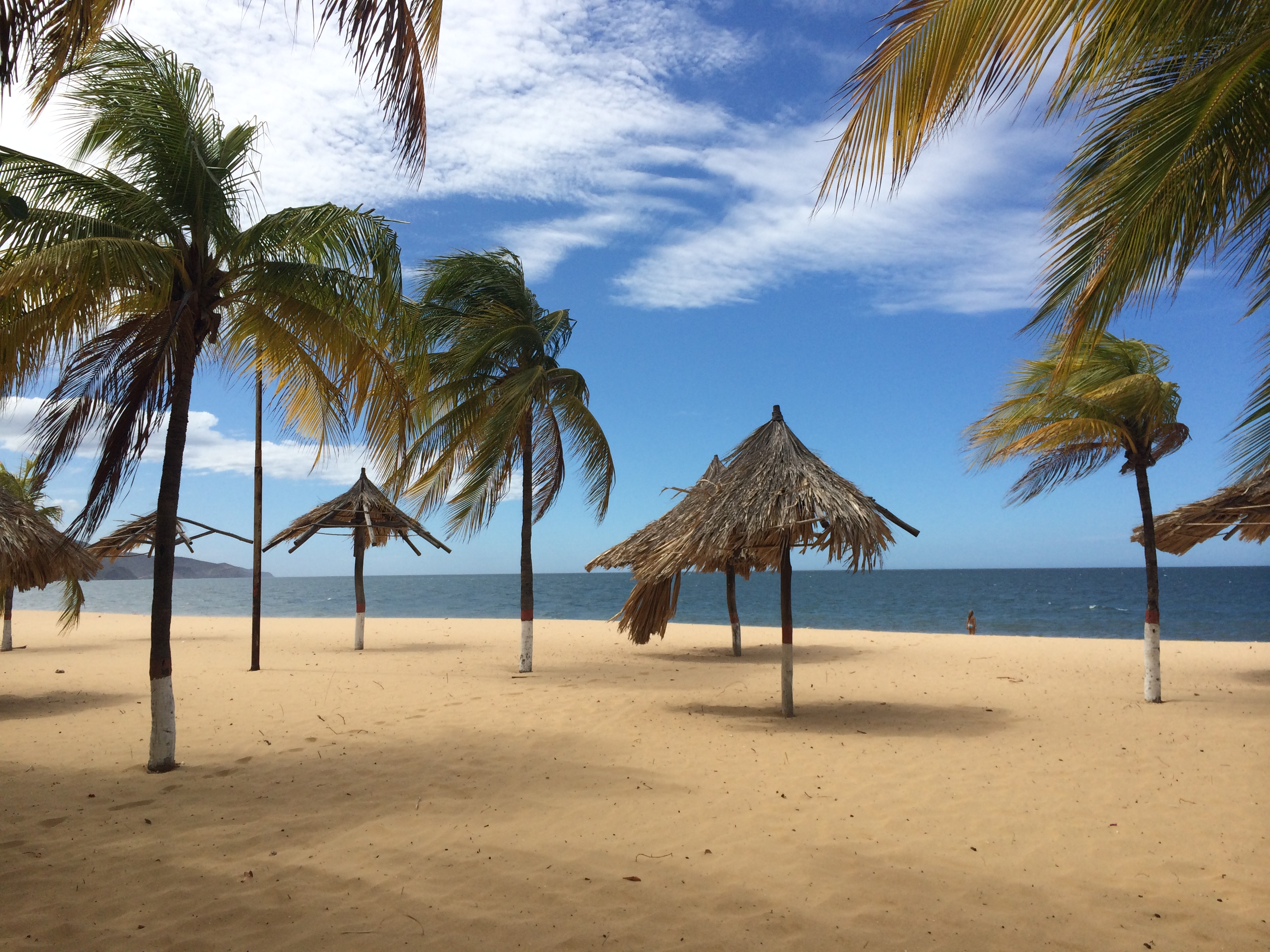 Venezuelan beach in Cumana, state of Sucre